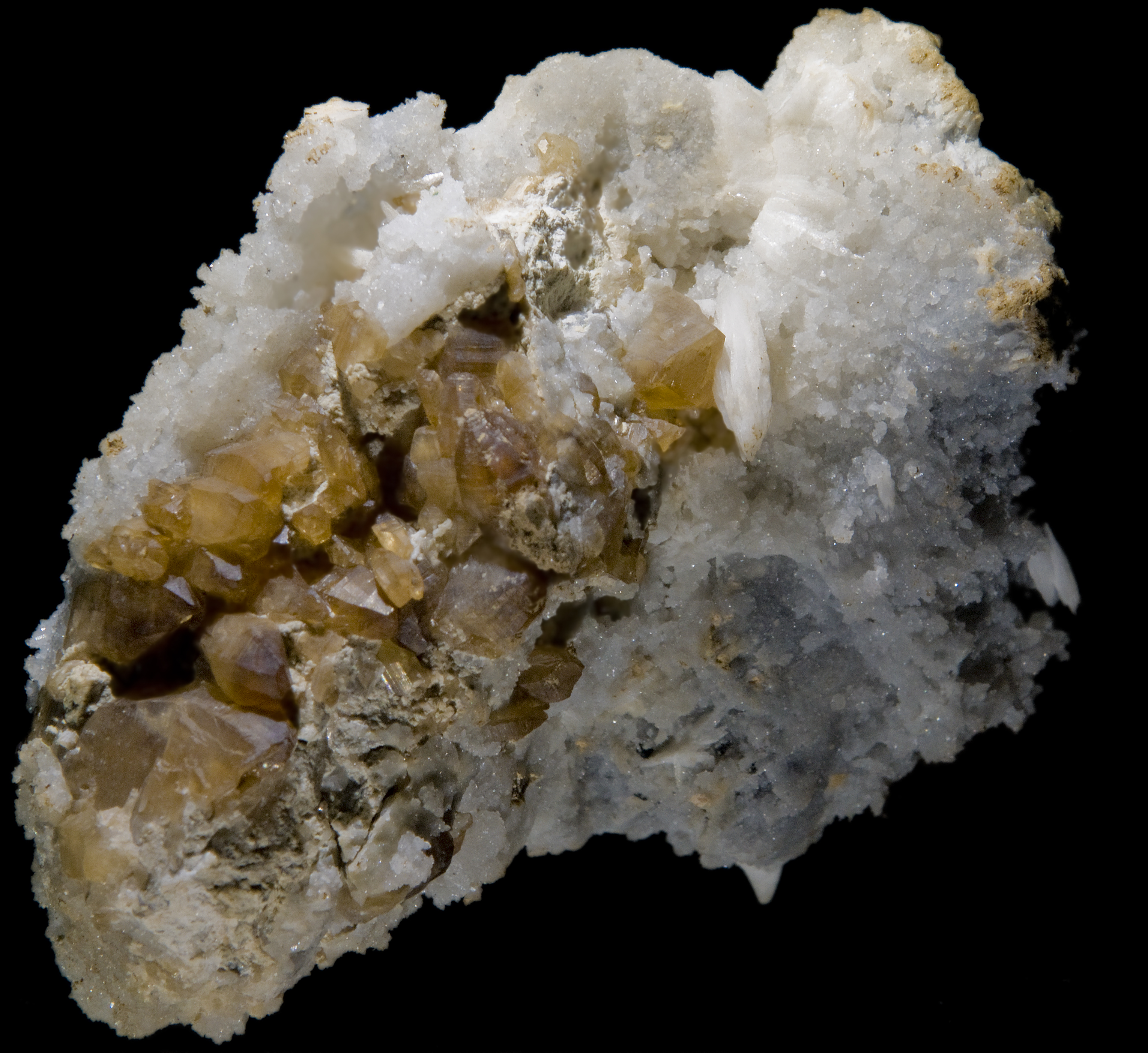 Cerussite Locality : Les Farges Mine, Ussel, Corrèze, Limousin, France Size : 7.5x4cm